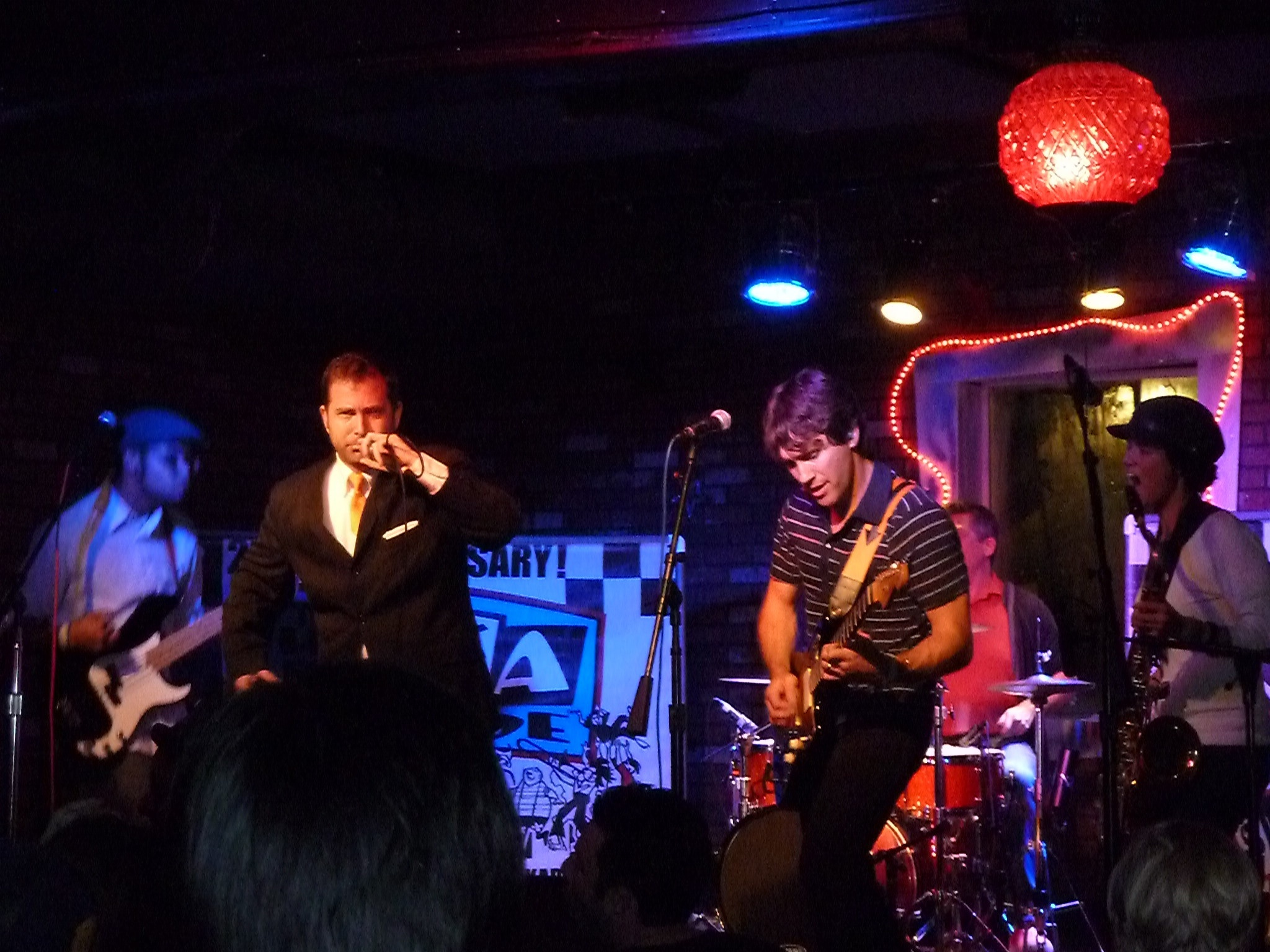 GOGO13 performing a show in San Francisco in 2011.